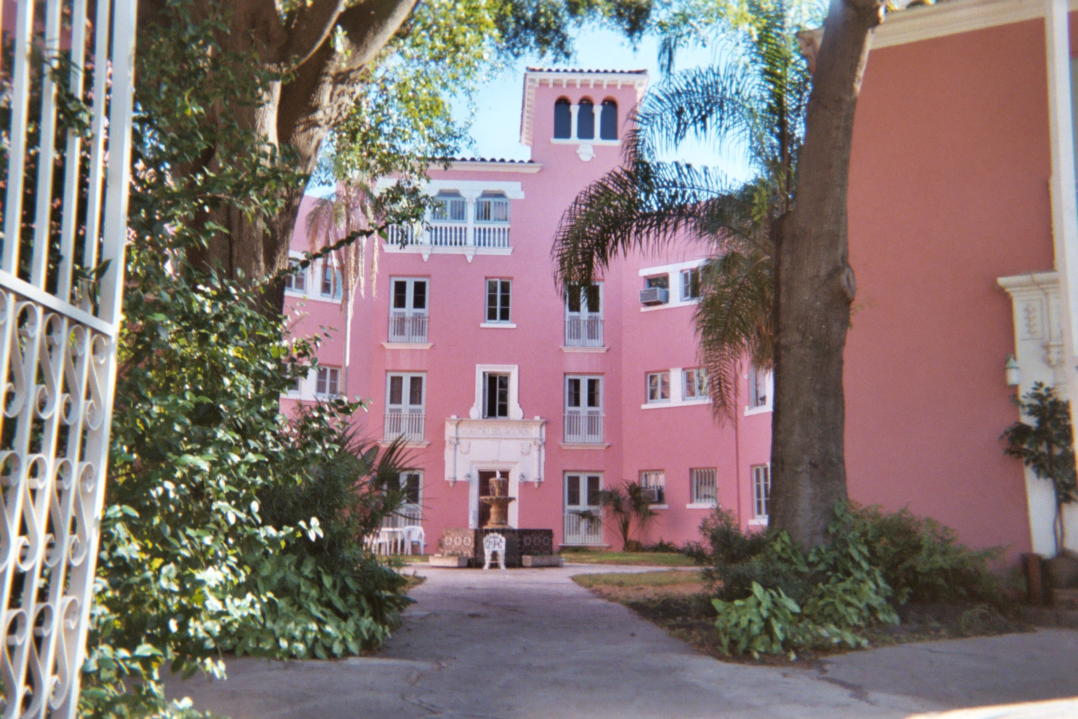 Spanish Apartments on Davis Island, in Tampa, Florida